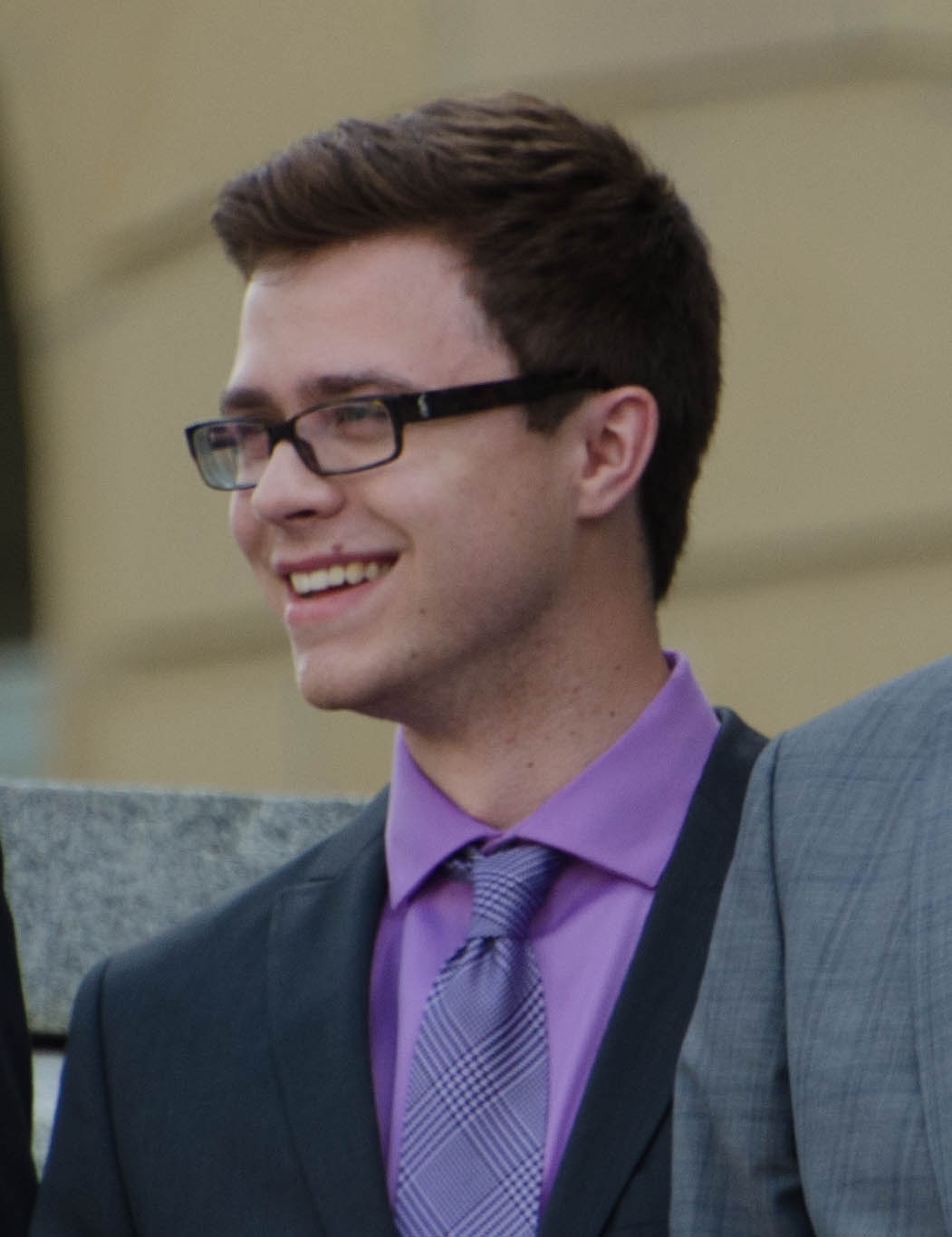 Jon Carson at the 2015 Alberta Premier/Cabinet swearing-in ceremony, by Connor Mah.